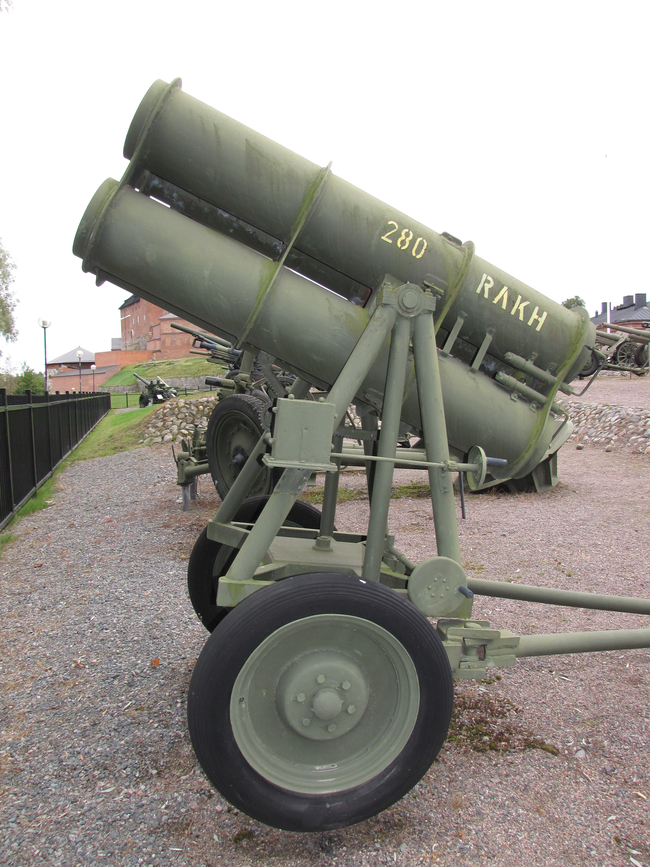 Finnish 280 mm rocket launcher model 1944 in Hämeenlinna artillery museum. Accepted for production in late 1944, but the end of the war cancelled the project.